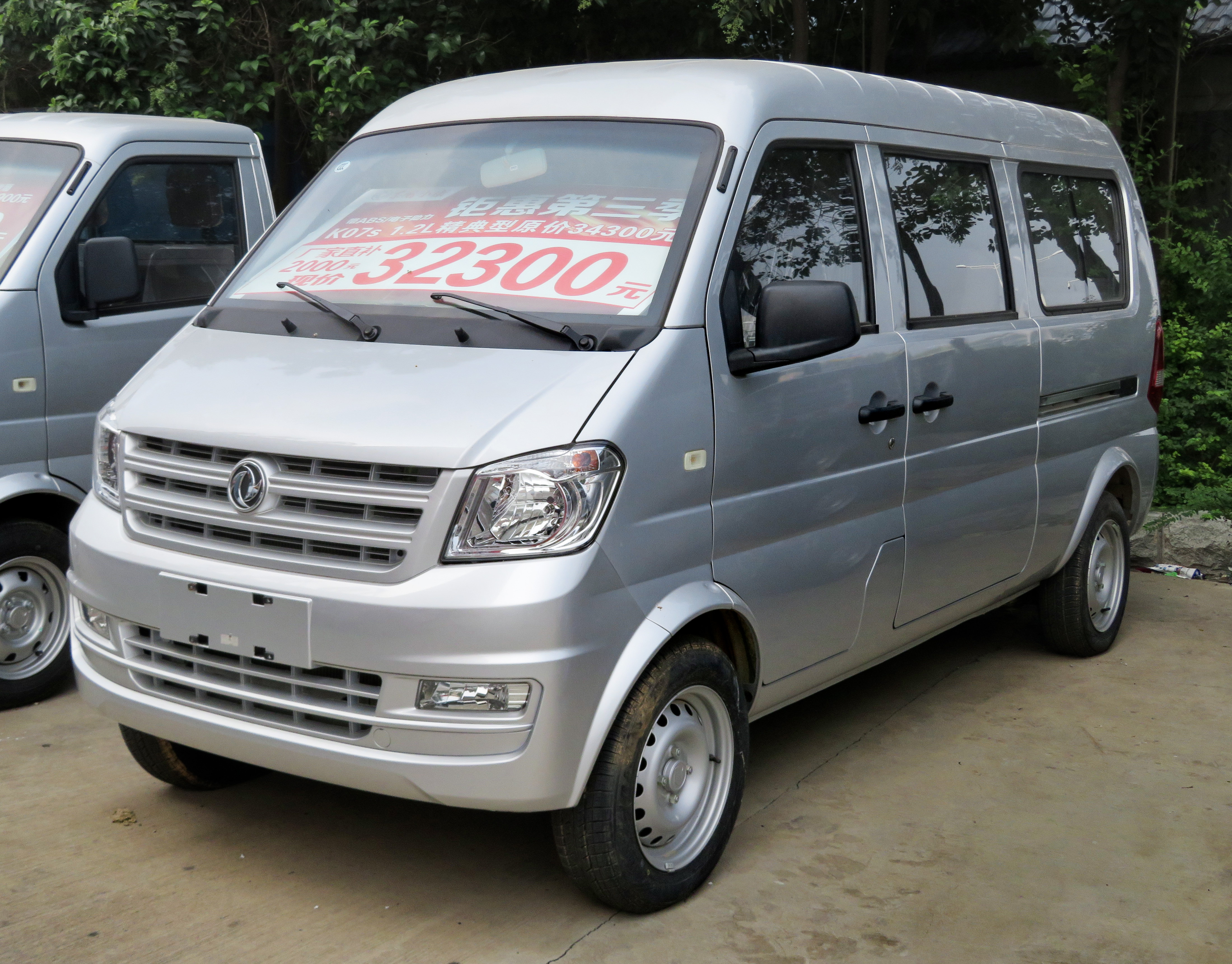 A 2018 Dongfeng-Xiaokang (Sokon) K07S photographed in Xigong District, Luoyang, Henan province, China